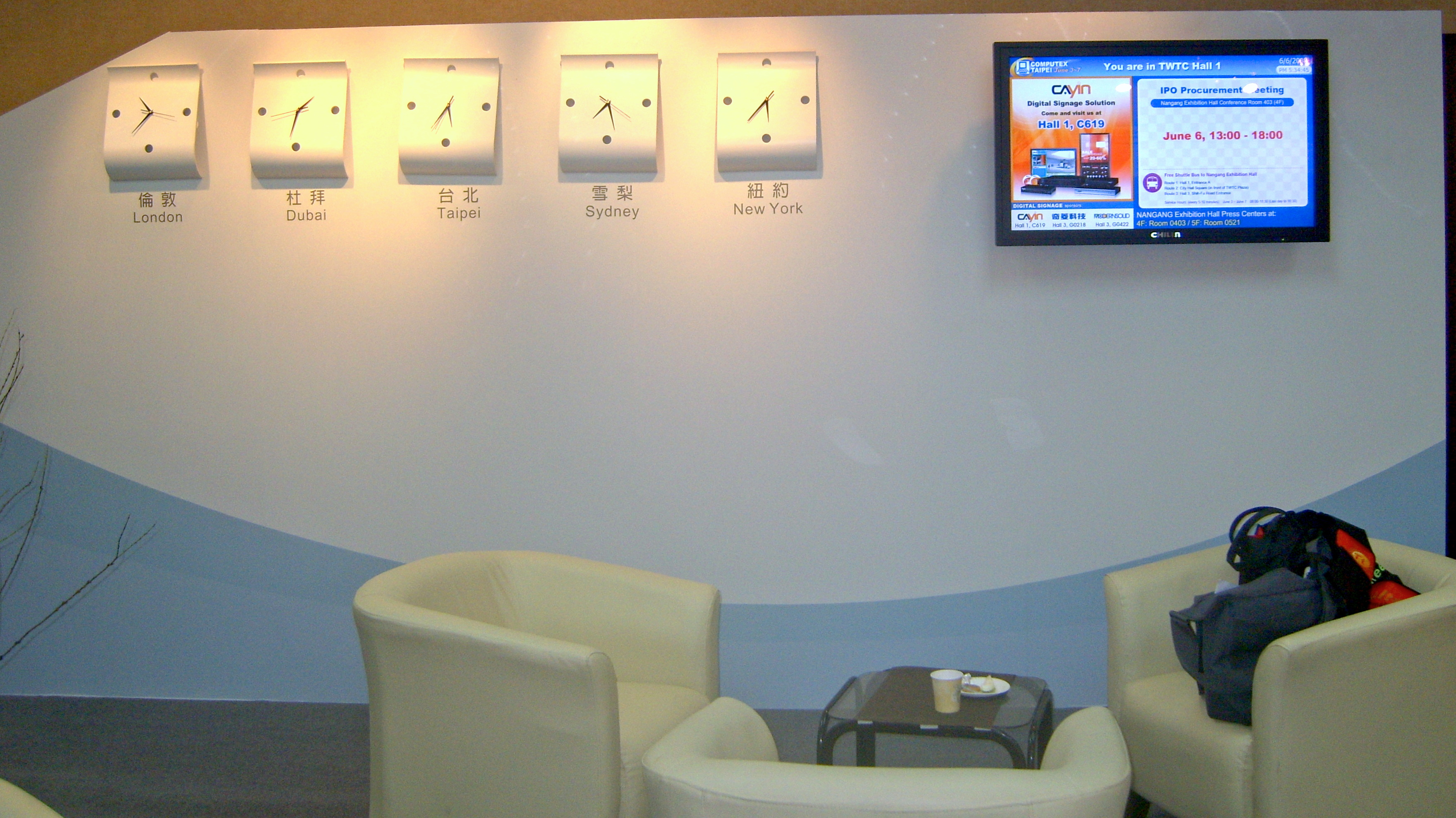 2008 Computex: Press Center at TWTC Hall 1.